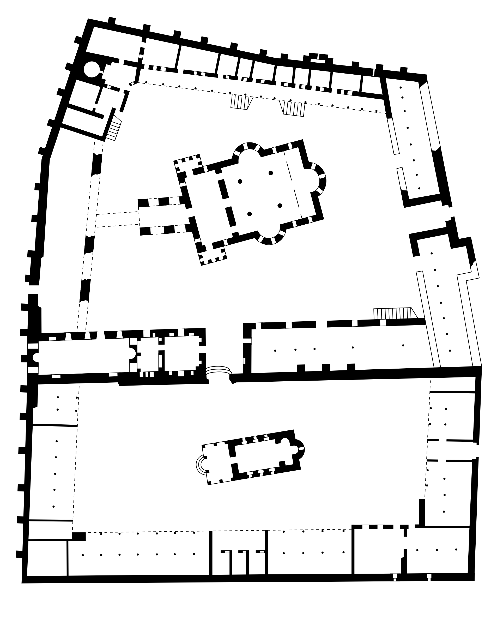 Bachkovo Monastery plan Based on : [1] [2]